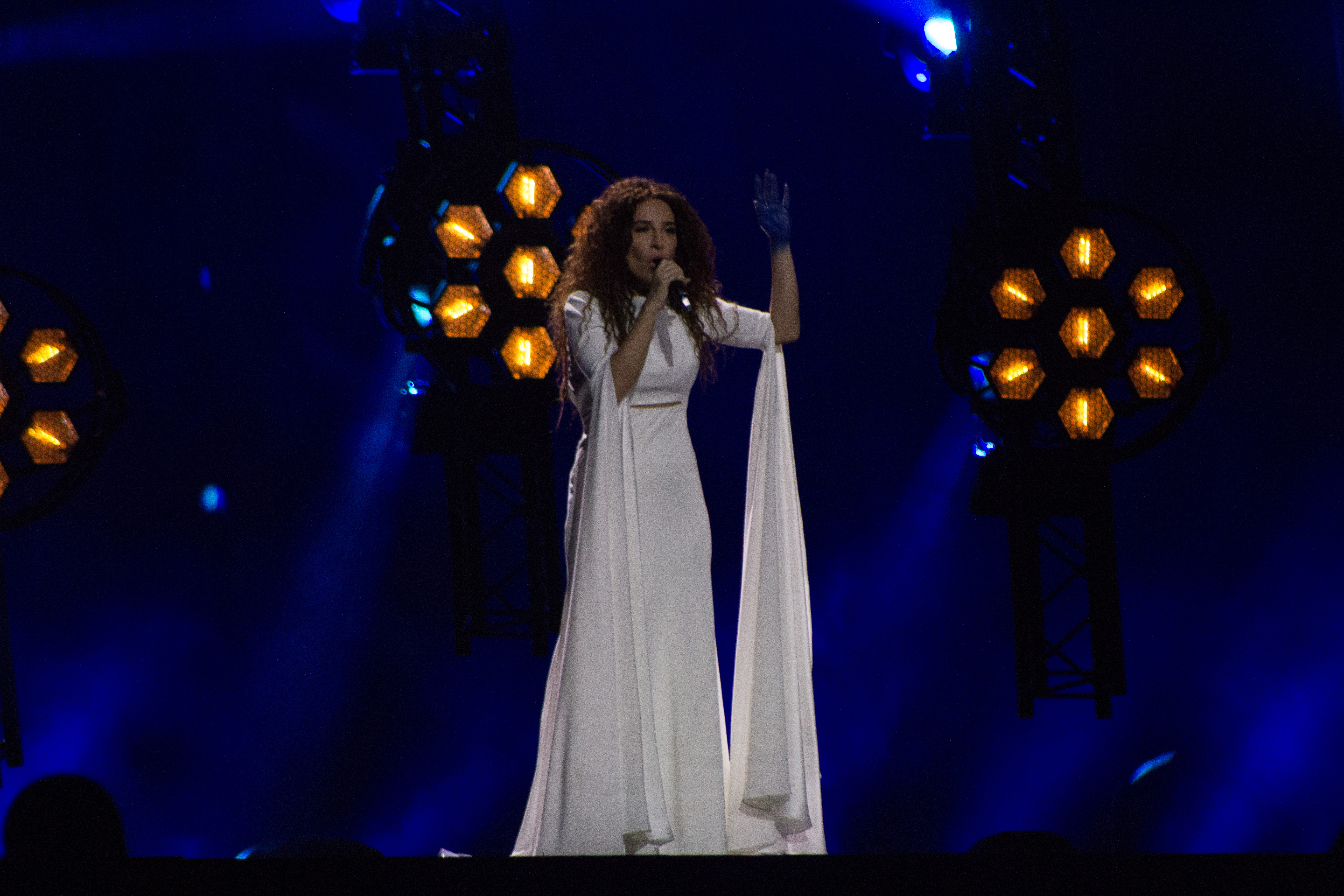 Yianna Terzi representing Greece with the song "Oneiro mou" during a rehearsal before the first semi final of the Eurovision Song Contest 2018 in Lisbon.